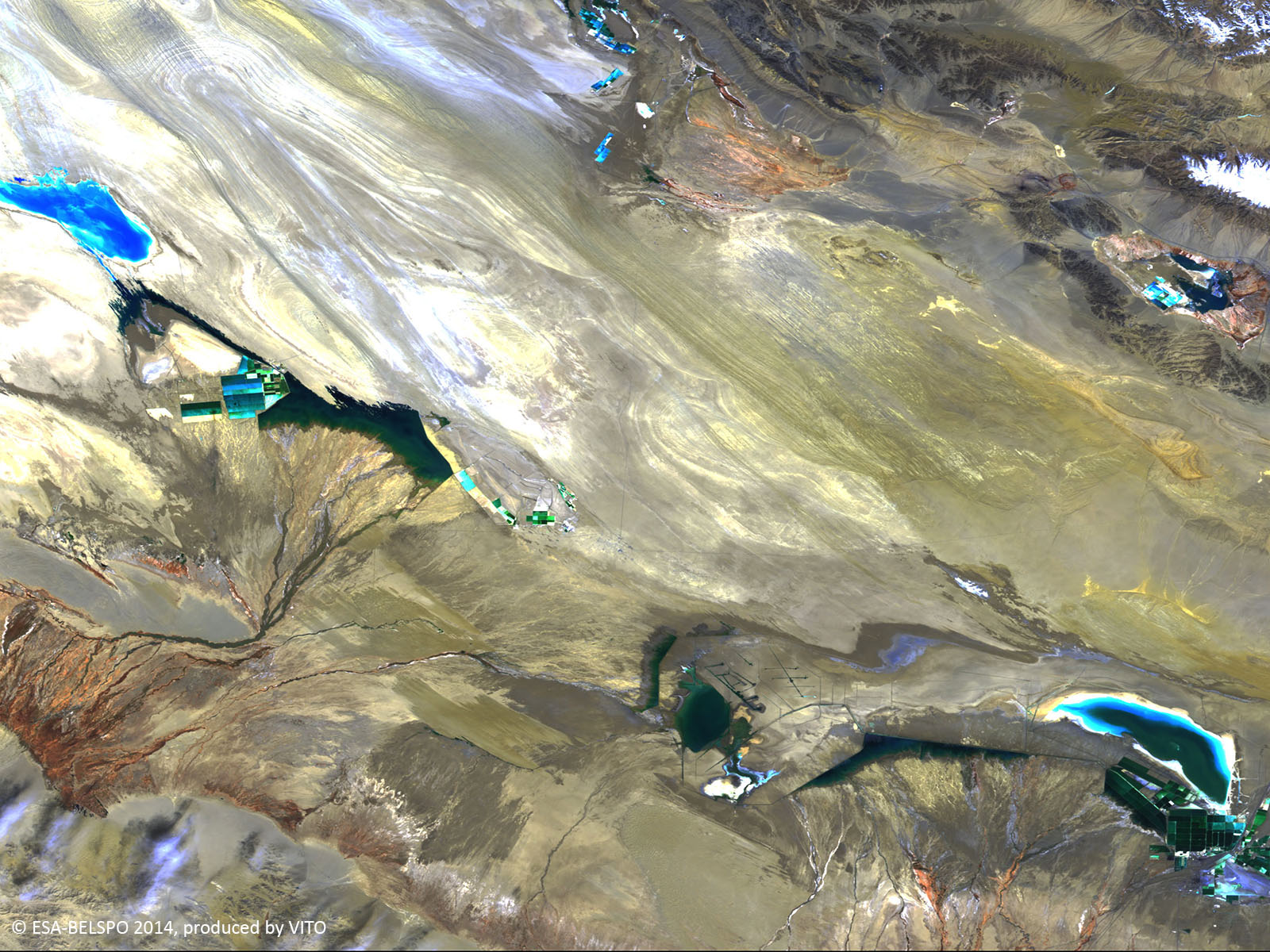 Title: "PROBAV S1 TOC 20140426 100M gansu3".Caption: The 100 m image of 26 April 2014 shows us Qaidam Basin, an hyperarid basin with an area of approximately 120,000 km², one fourth of which is covered by saline lakes and playas. By one count, there are 27 such lakes in the basin. In this PROBA-V image we see the West and East [Taijinar Lakes on] the left side, in the middle Senie Lake[,] and at the right Dabuxun Lake. After zooming in, you can see the infrastructures built for the reclamation of salt and other minerals.[Typos corrected. Senie = Suli. Dabuxun = Dabusun.]